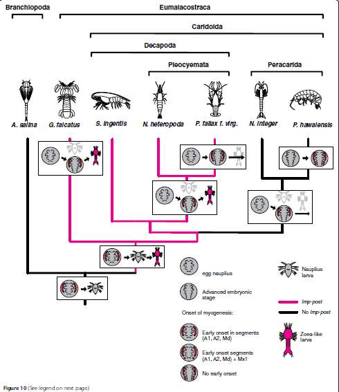 La figura miuestra las relaciones filogeneticas entre Malacostraca. Se muestra que la banda muscular longitudinal pionera posterior junta a todos los grupos con presencia de larva Zoea